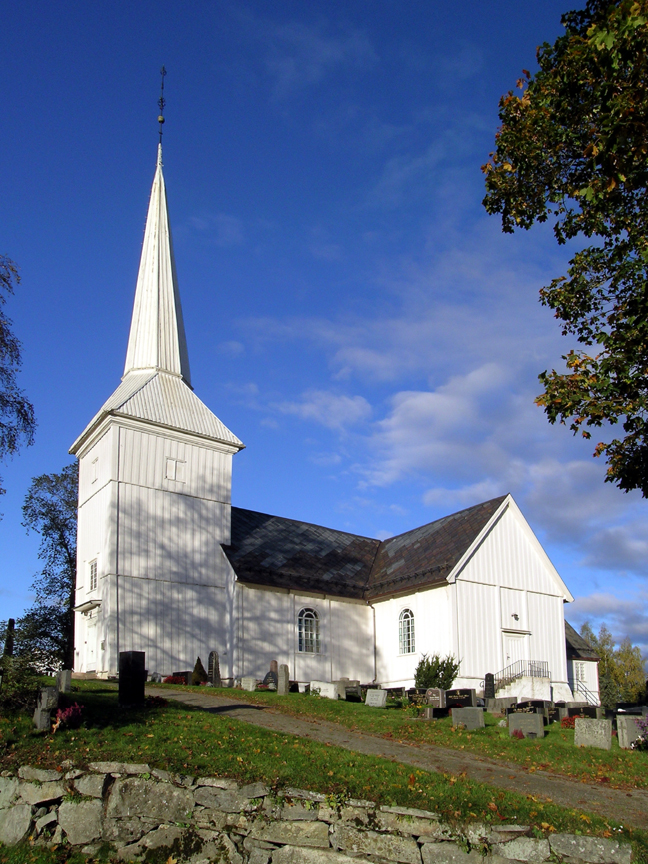 Hovin church, Ullensaker, Norway.